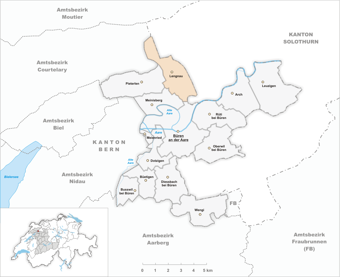 Municipality Lengnau